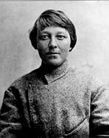 Maria Grigor'evna Nikiforova